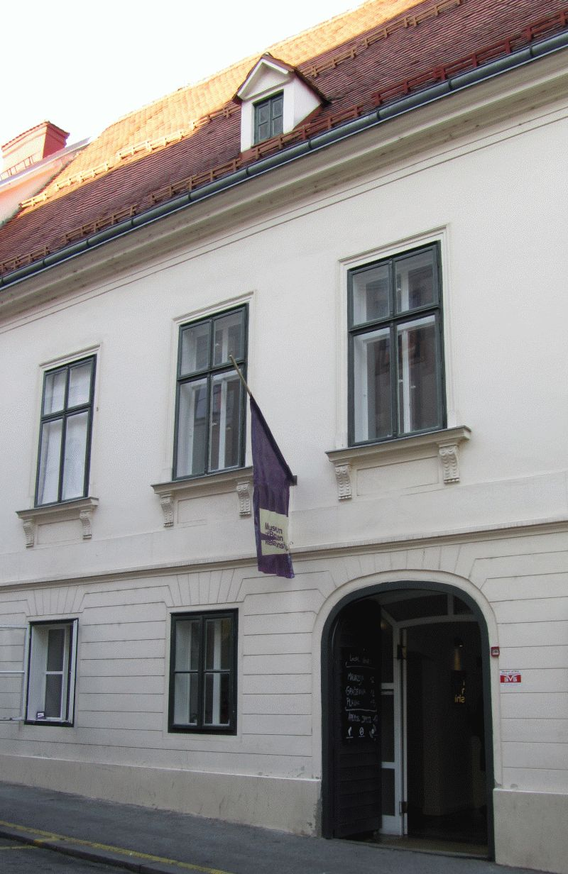 The Museum of Broken Relationships in Zagreb, Croatia.